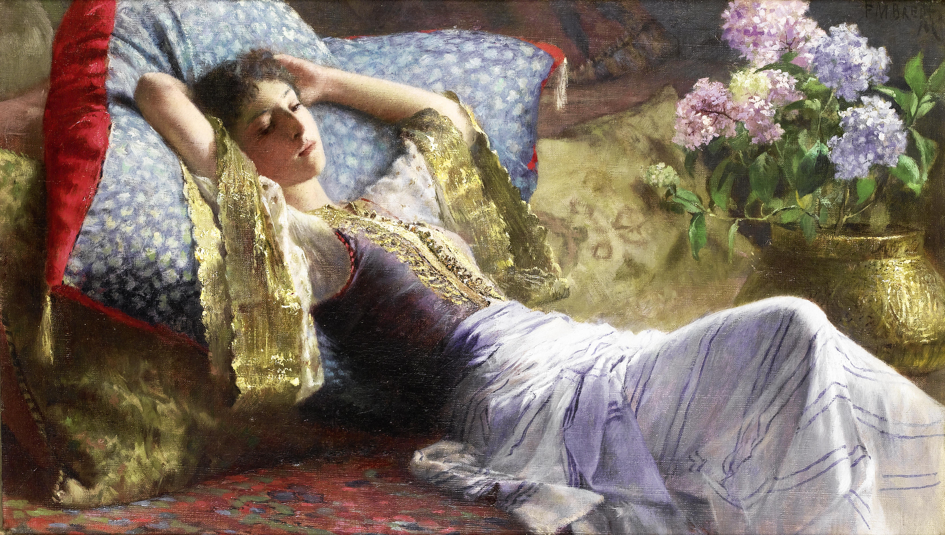 Reclining Odalisque